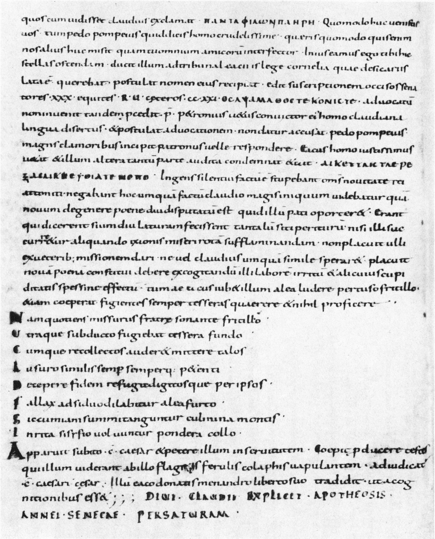 Seneca the Younger, Apocolocyntosis, in ms. St. Gallen, Stiftsbibliothek, 569, p. 251.